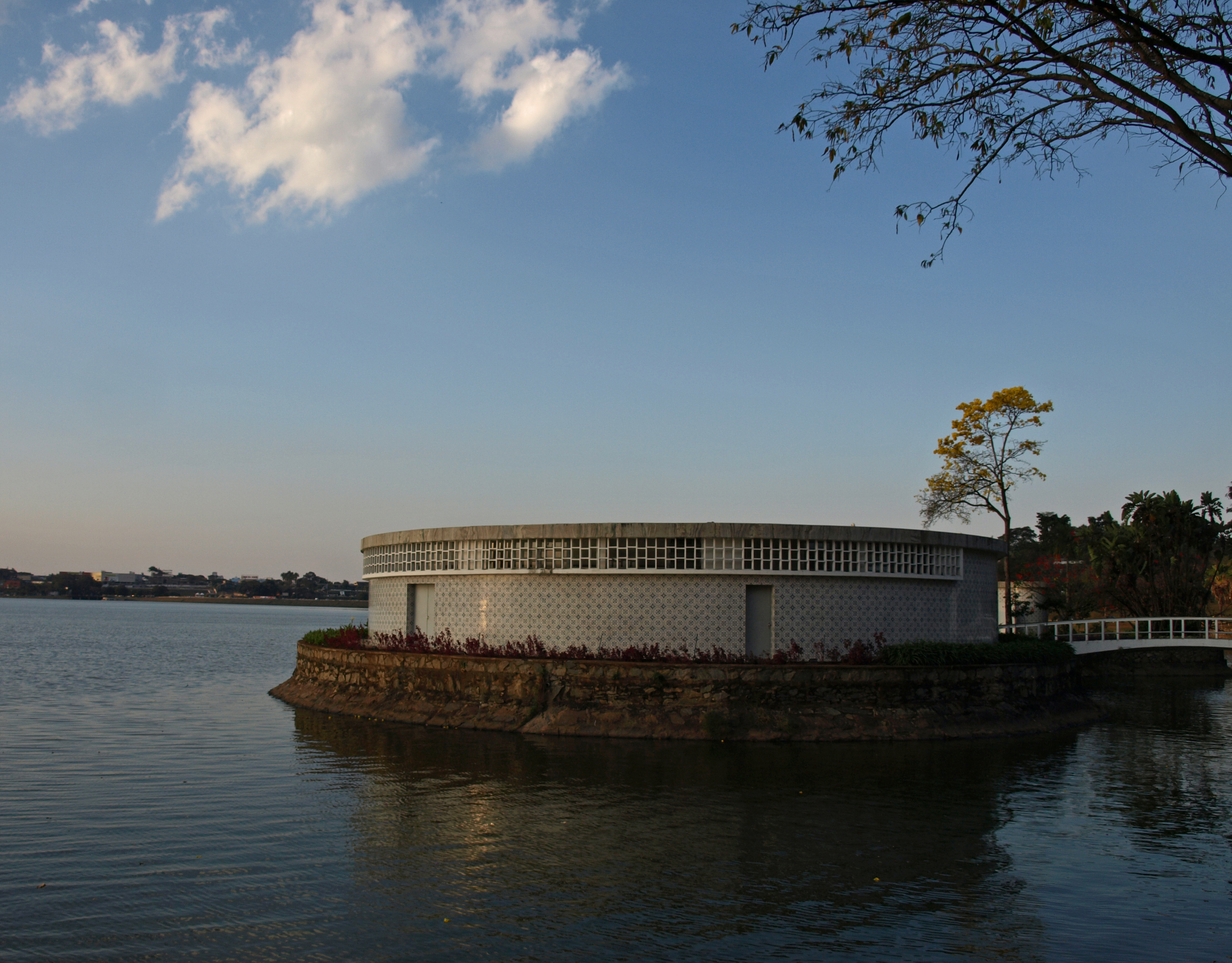 Casa do Baile, Pampulha (Belo-Horisonte)